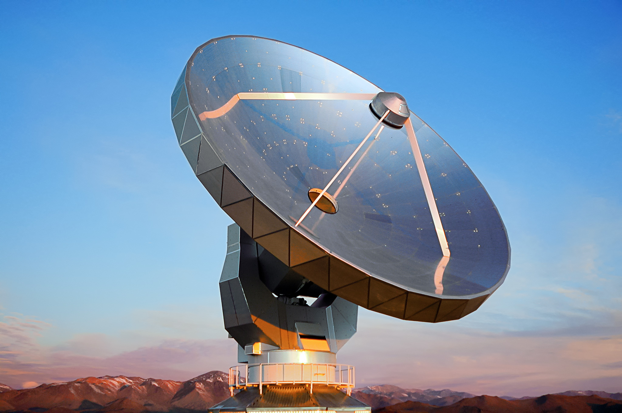 This is the Swedish-ESO Submillimetre Telescope (SEST) which was decommissioned in 2003. Its 15-metre diameter dish is silently towering over the La Silla landscape.